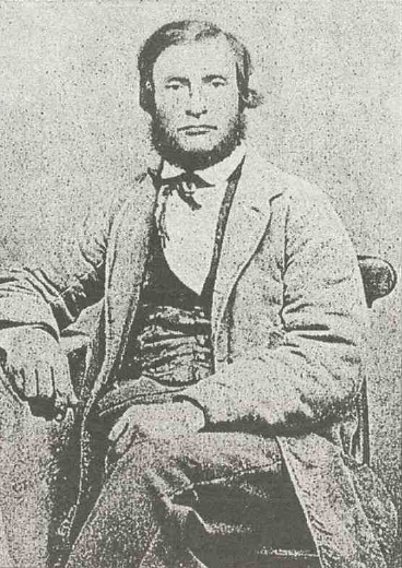 A photograph of Rice Owen Clark, the founding father of Crown Lynn potteries in Auckland, New Zealand.